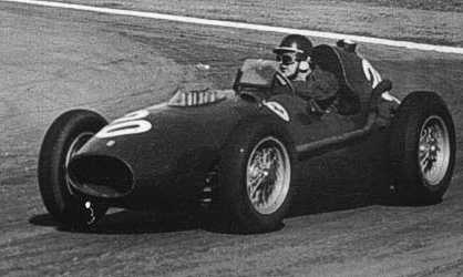 Mike Hawthorn drove his Ferrari at the 1958 Argentine Grand Prix, from italian wikipedia